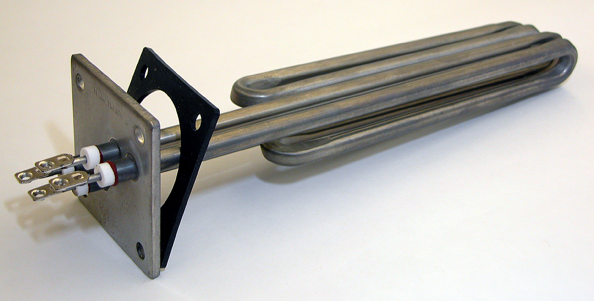 Resistance heating element